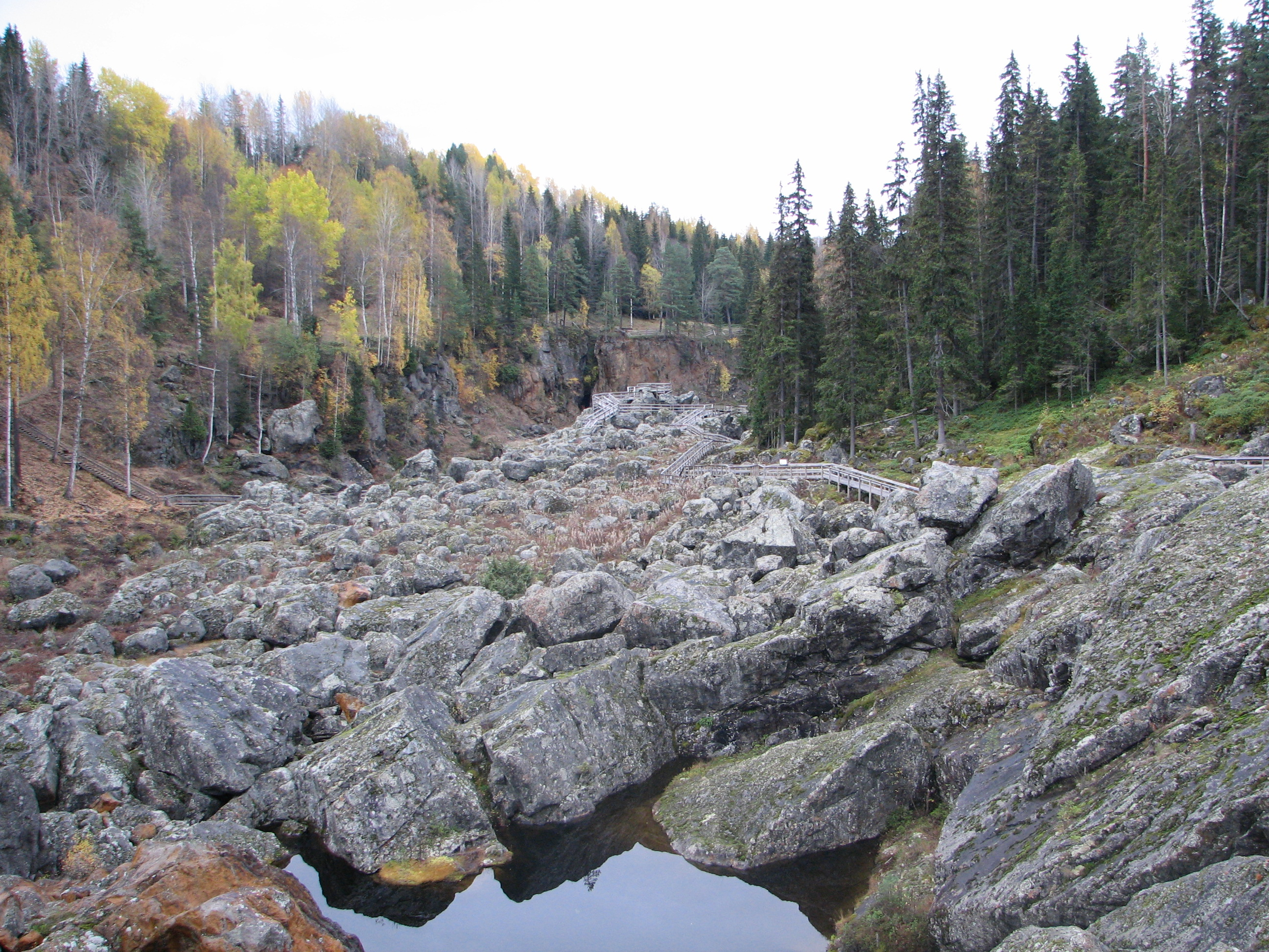 Döda fallet (en: Dead Waterfall) in Ragunda, Sweden. 35m (115ft) waterfall silenced by mistake in 1796.